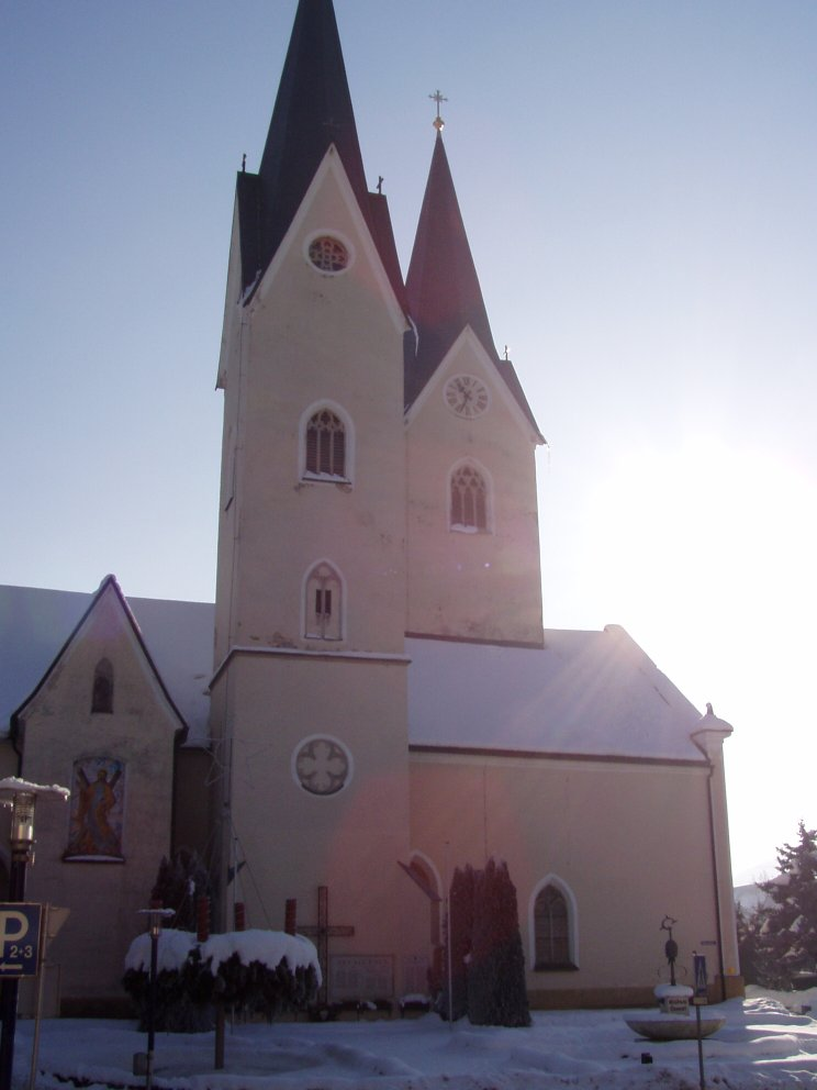 Parish Church St. Andreas in Sankt Andrä im Lavanttal, Carinthia, Austria